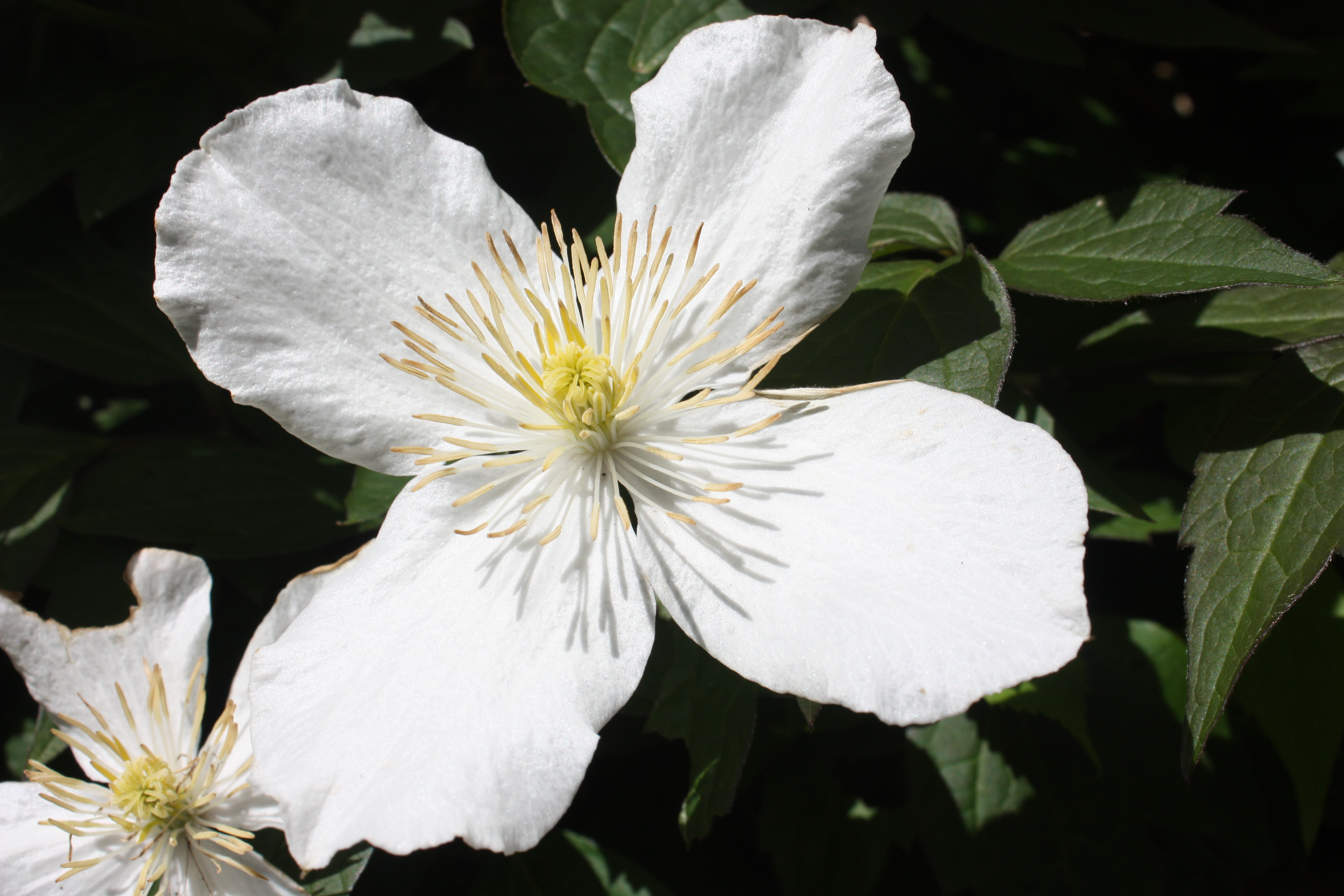 Clematis, Downpatrick, County Down, Northern Ireland, May 2011